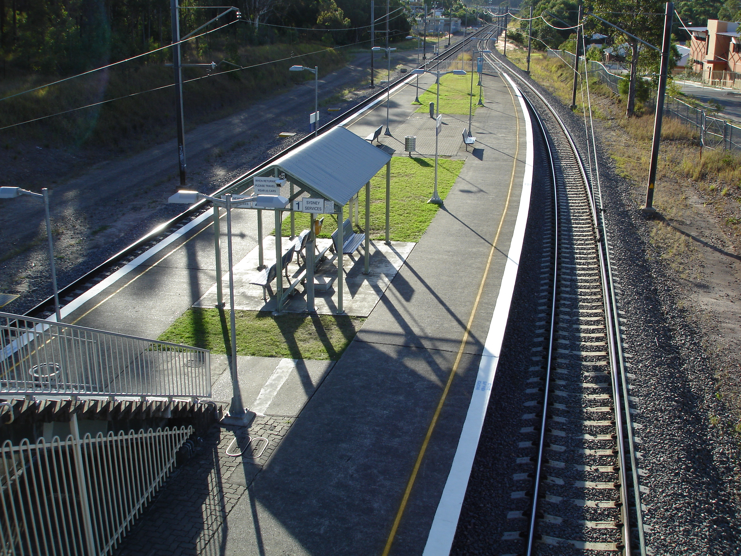 Booragul station looking northbound taken by MrTwig